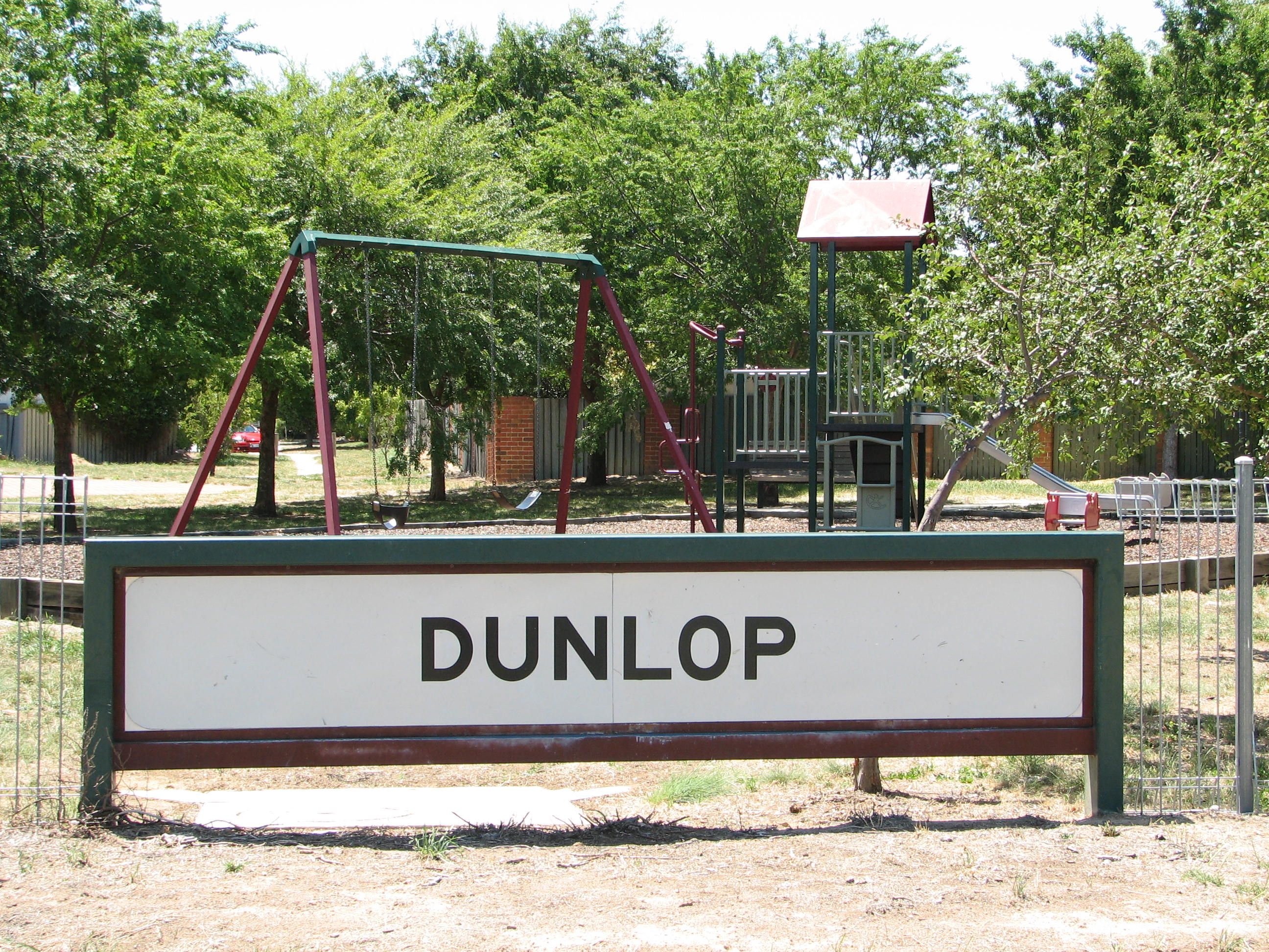 Suburb sign for Dunlop, Australian Capital Territory. Located at the corner of Lance Hill Avenue and Evelyn Owen Crescent. Taken by me - Tim Malone - on 20th January 2007.